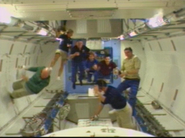 Astronauts entering the Japanese Experiment Module.